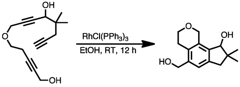 Cyclotrimerisation aromatization reaction of a diyne with a tethered alkyne to a benzene derivative with rhodium catalysis